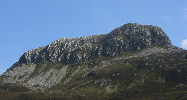 Sgurr Innse. The western side from the track in the valley below.